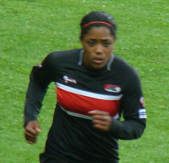 AZ player Dyanne Bito